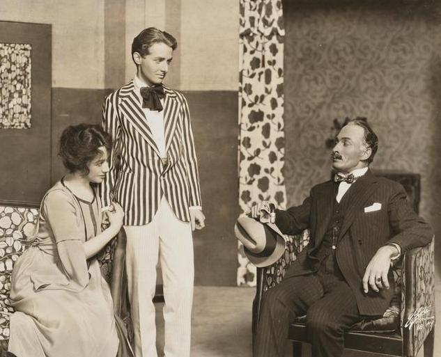 Left to right: Lina Abarbanell, Morgan Farley, and Lionel Atwill in The Grand Duke, Broadway, Lyceum Theatre - publicity still (cropped)